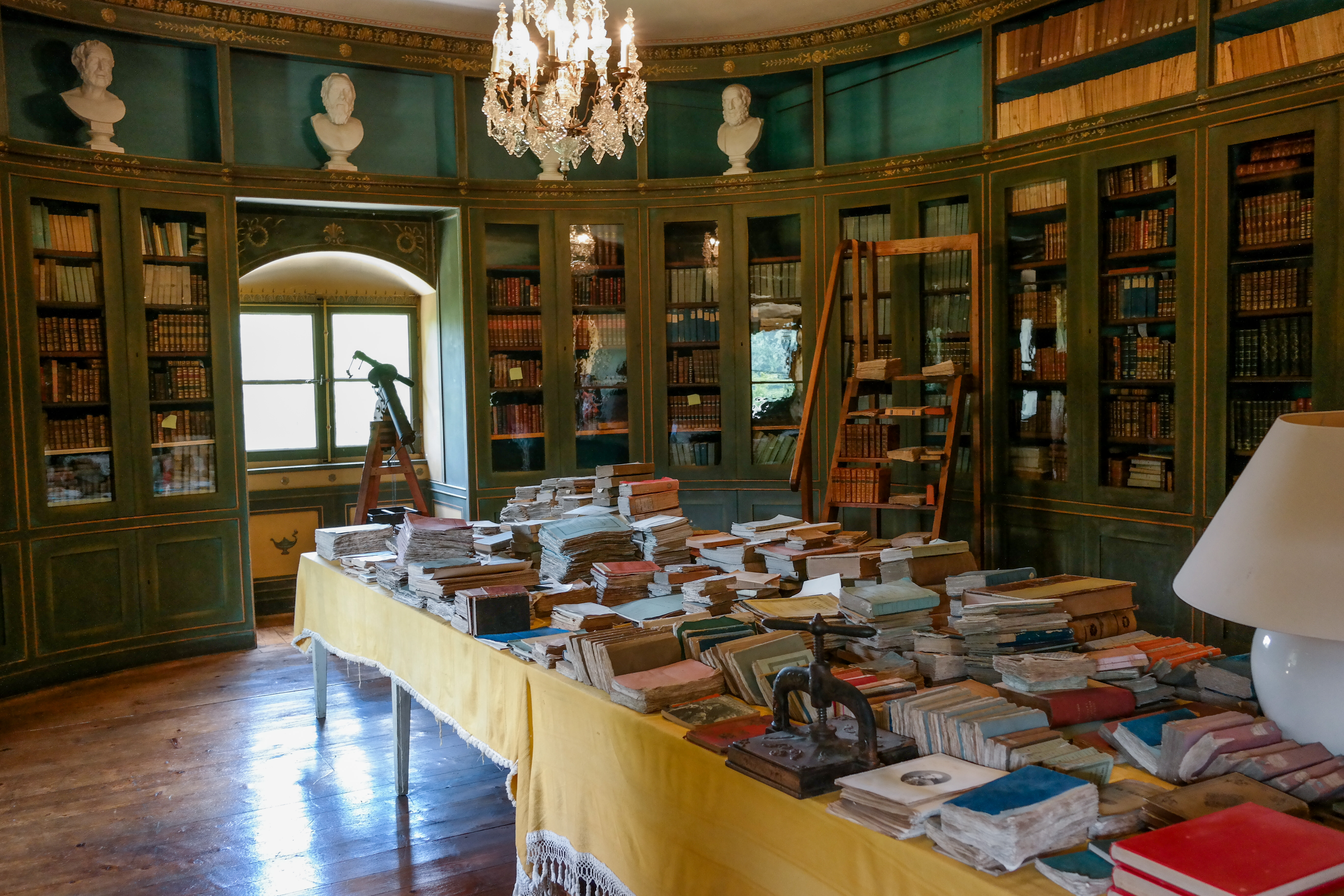 Villa Palladienne bibliothèque